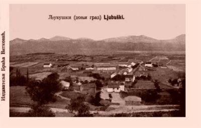 Ljubuški (town) in the 1920s or 1930s